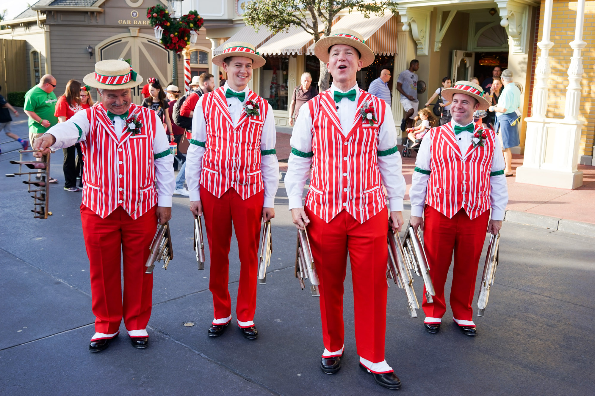 Street Performers on Main Street, U.S.A.